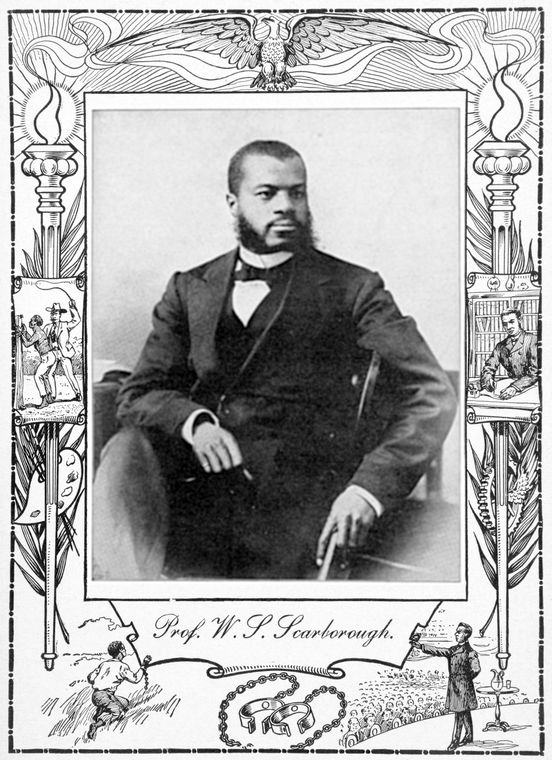 Scarborough in 1887